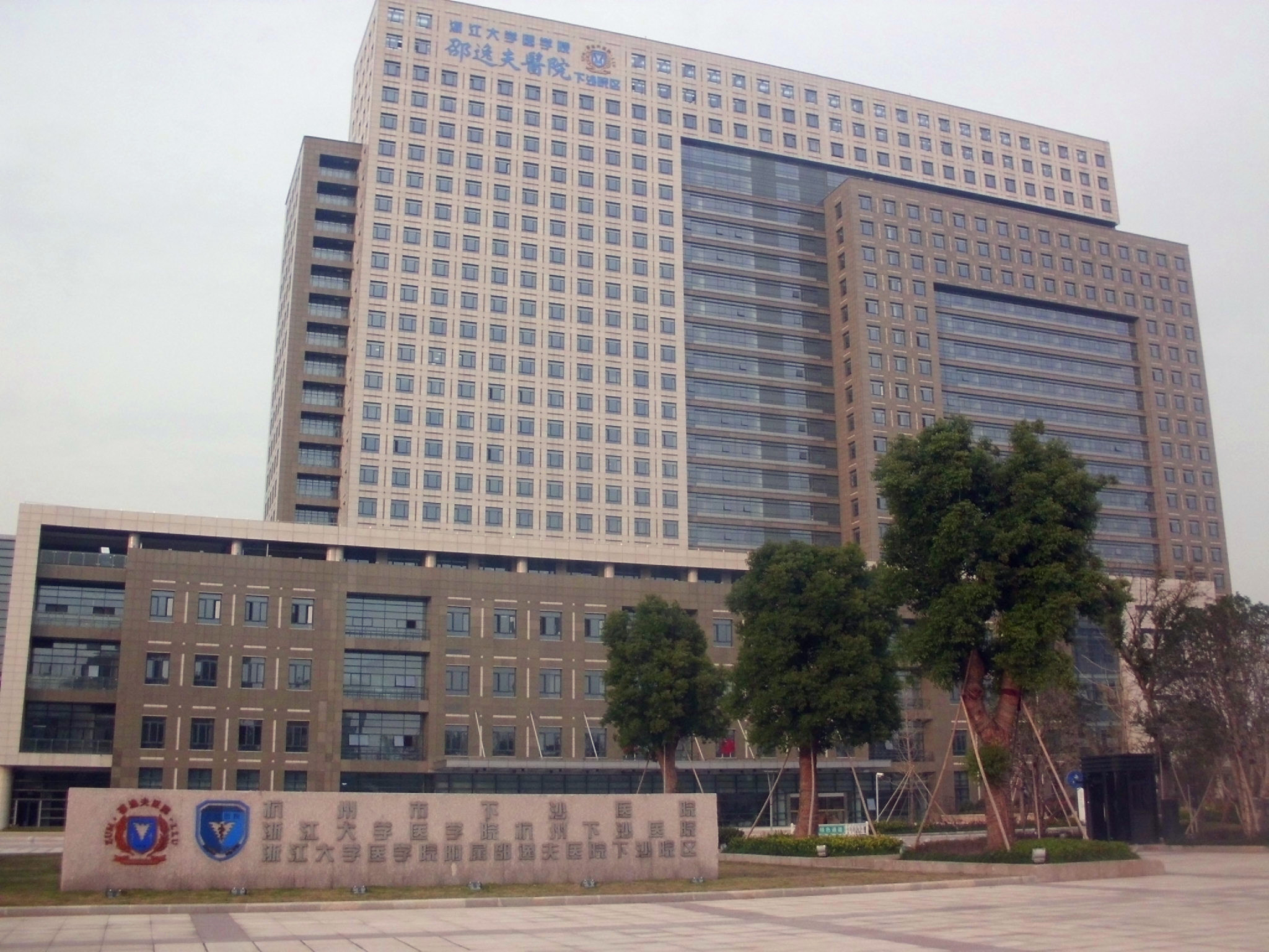 Xiasha Hospital